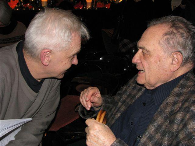 Michal Bristiger (b. August 1, 1921 in Jagielnica, Poland, d. December 16, 2016) - Polish musicologist, music critic. He lived in Warsaw, Poland + Piotr Kloczowski (b. 1949), Polish essayist, literary historian, editor, publisher, curator of painting.